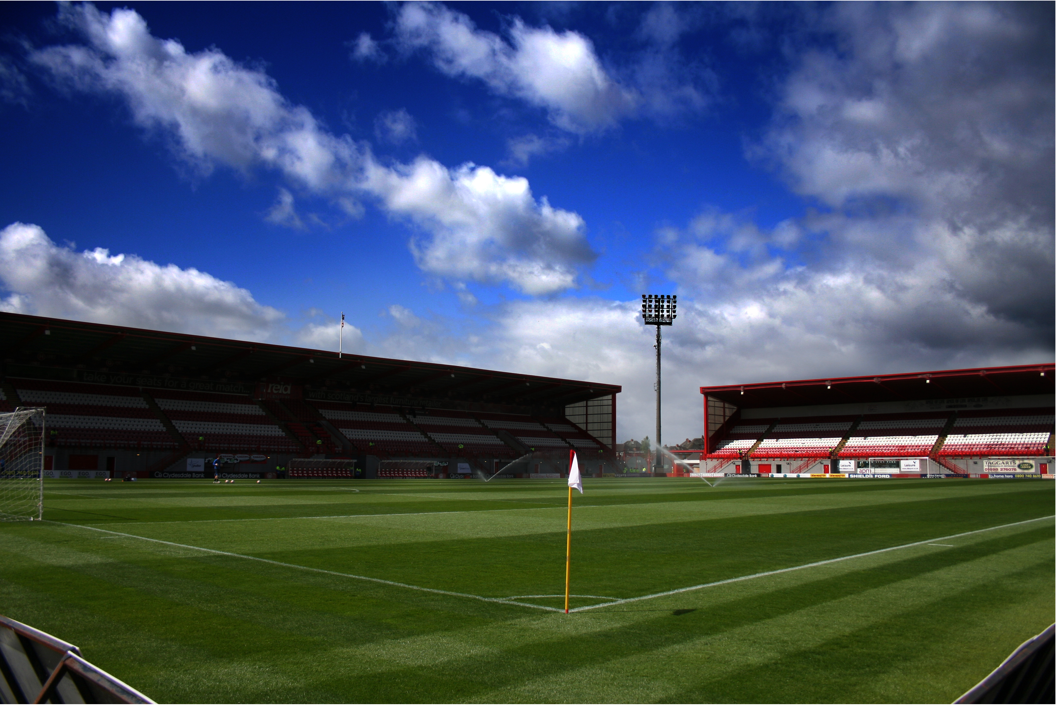 New Douglas Park with Polarising Filter